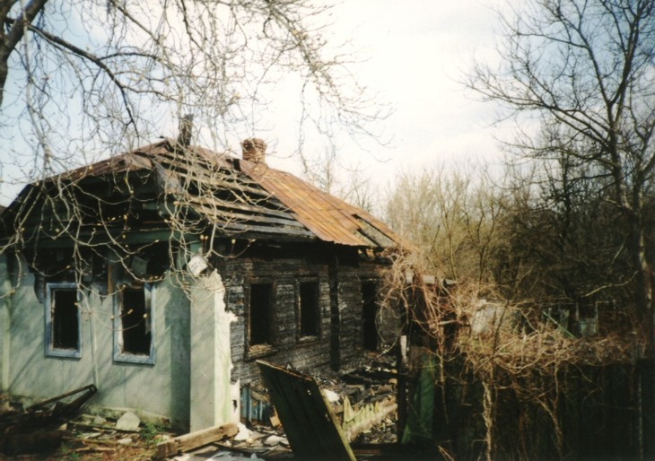 House of a village near Pripyat, Ukraine - abandoned after Chornobyl accident.